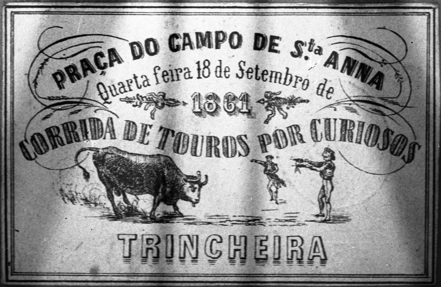 Tickets to a bullfighting show, in the Campo de Santana Bullring (closed and demolished in 1889). Lisbon, September 1861.